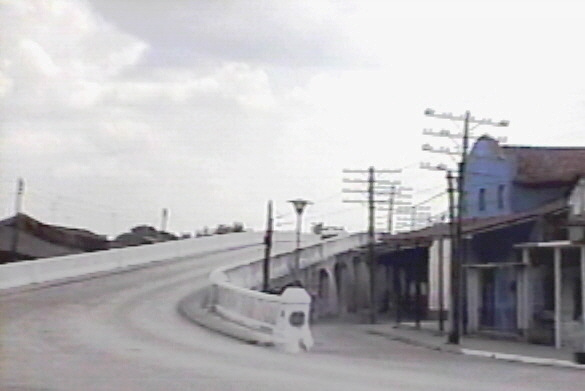 Bridge over railroad, in the town of Guayos, Sancti Spíritus Province.